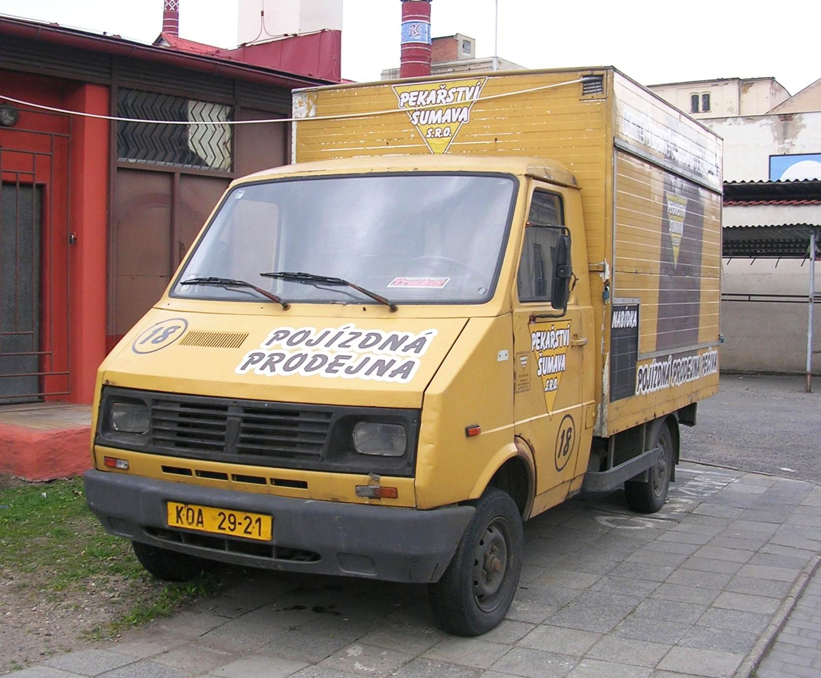 Kralupy nad Vltavou, the Czech Republic.